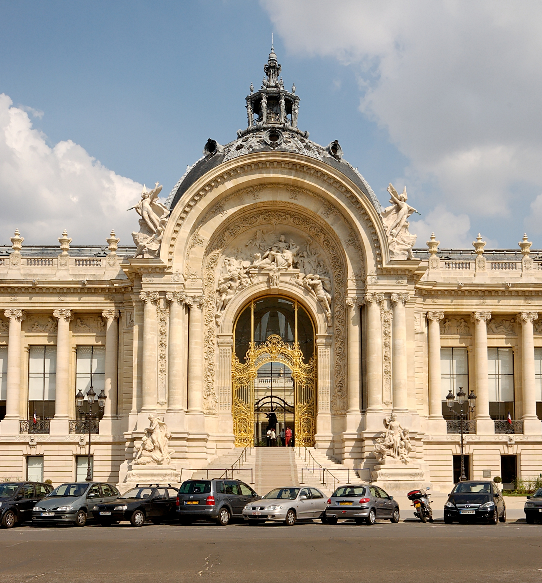 Entrance of the Petit Palais, a Parisian palace built in 1900 for the Universal Exhibition. Avenue Winston Churchill, Paris.